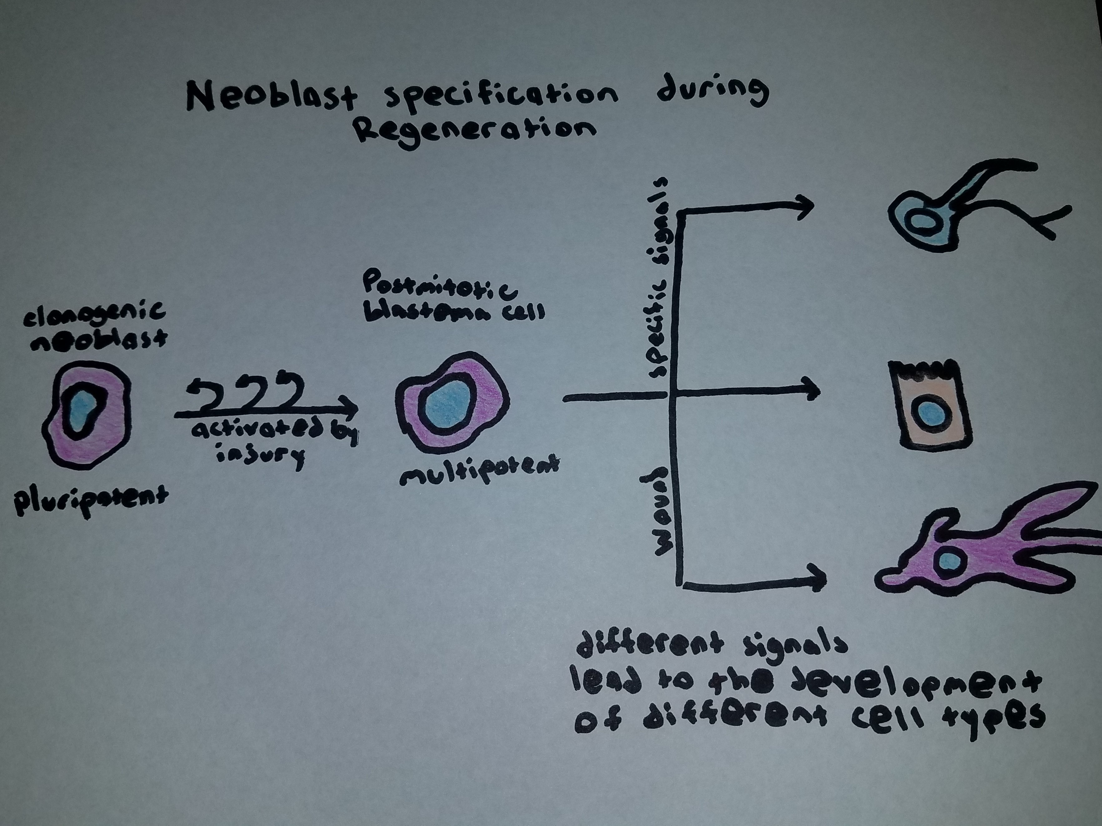 Shows an example mechanism of neoblast specification during regeneration.